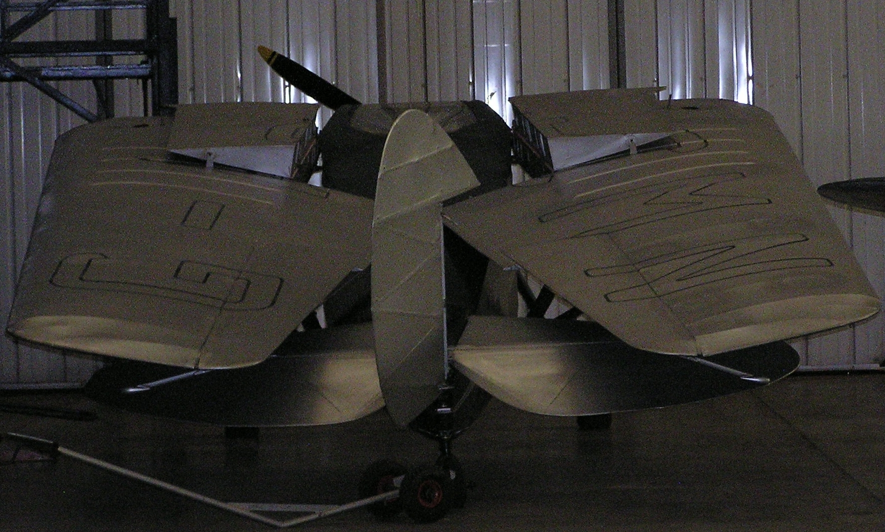 de Havilland Leopard Moth G-ACMN rests, folded, in dim light. Duxford 22 August 2012